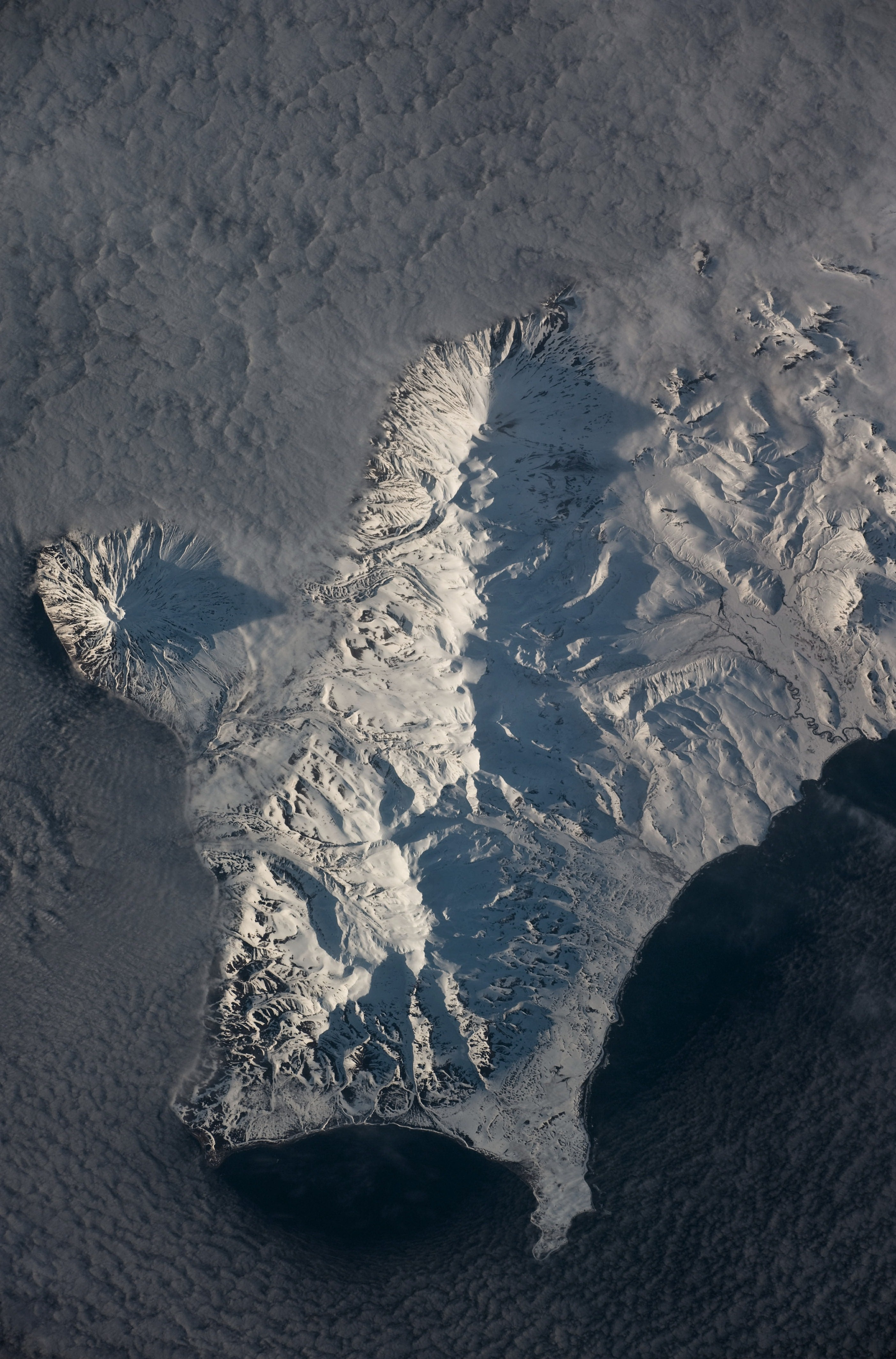 This astronaut photograph shows the southern end of Paramushir Island after a snowfall. The western slopes of the mountains are brightly illuminated, while the eastern slopes are in shadow. Four major volcanic centres create this part of the island. Fuss Peak (image centre left) is an isolated stratovolcano connected to the main island via an isthmus. Fuss Peak last erupted in 1854. The southern tip of the island is occupied by the Karpinsky Group of three volcanic centres. A minor eruption of ash following an earthquake occurred on this part of the island in 1952. The Lomonosov Group to the north-east (image centre) includes four cinder cones and a lava dome that produced several lava flows in the past, but there have been no eruptions from the Lomonosov Group in recorded history. The most recent volcanic activity on Paramushir Island occurred in 2008 at the Chikurachki cone located along the northern coastline of the island at image top centre. The summit of this volcano [1,816 meters above sea level] is the highest on Paramushir Island. Much of the Sea of Okhotsk visible in the image is covered with low clouds that often form around the islands in the Kuril chain. The clouds are generated by moisture-laden air passing over the cool sea/ocean water, and they typically wrap around the volcanic islands.